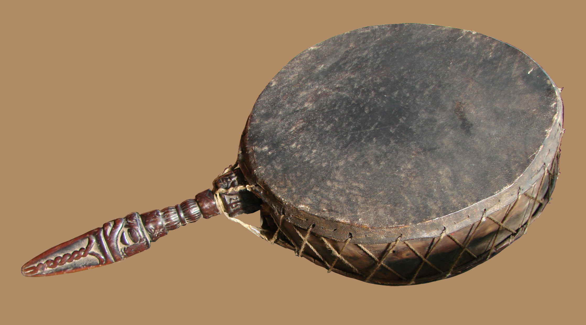 Drum from Tibet. A Dhyangro drum.